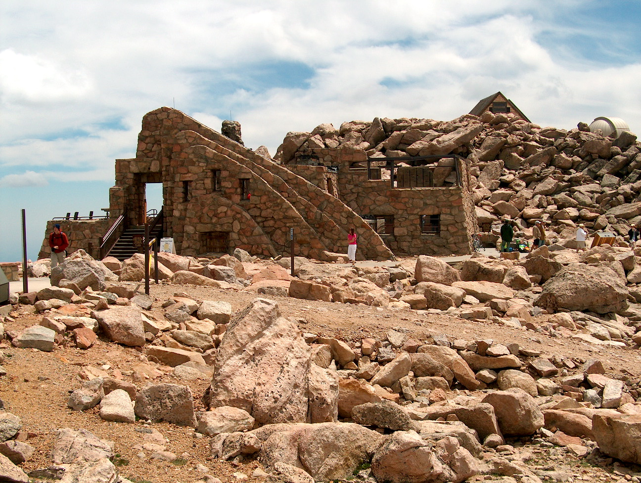 Crest House near summit of Mount Evans in Colorado. Photo by Ken Gallager, July 27, 2006.